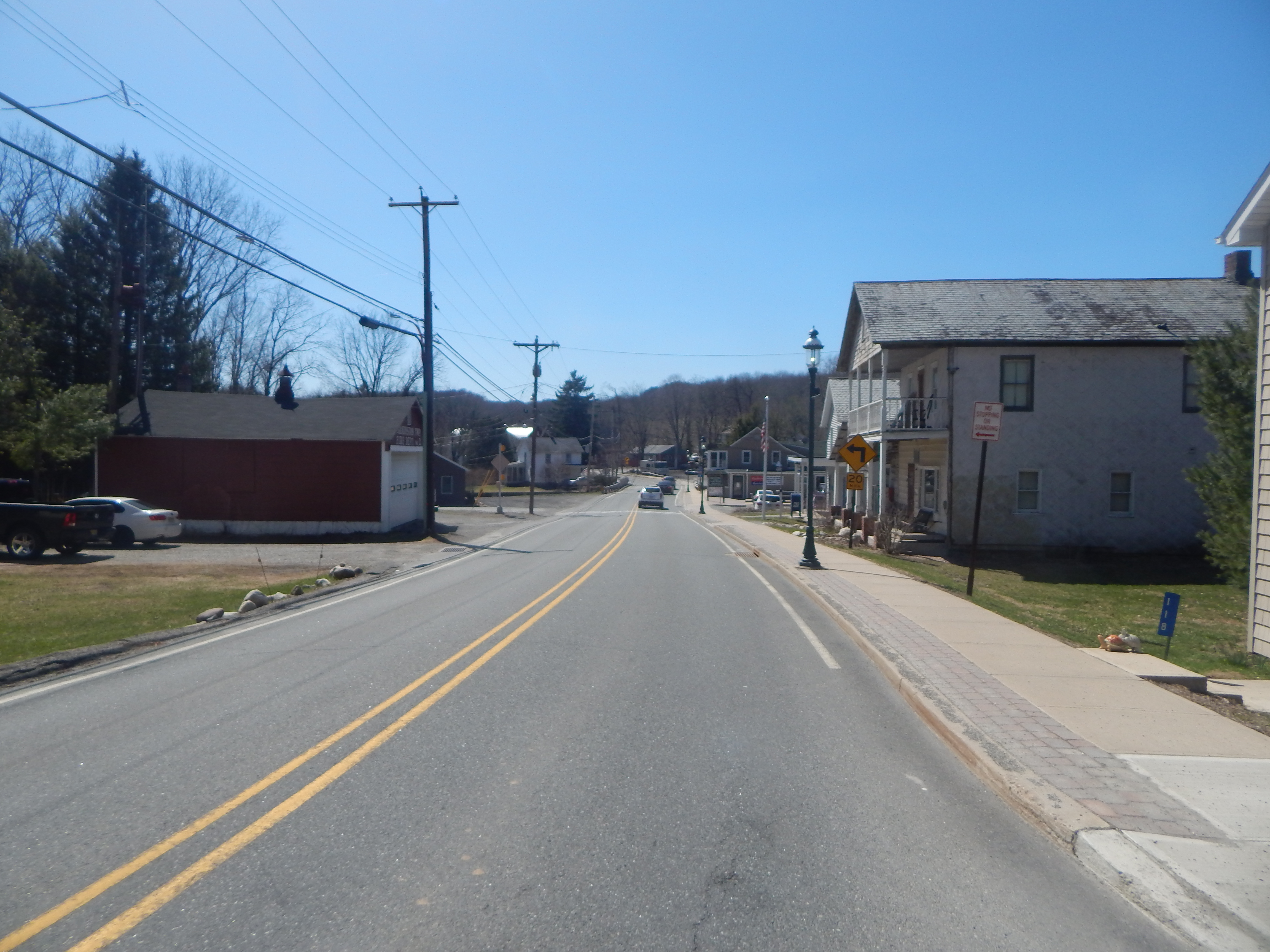 County Route 560 westbound through Layton, New Jersey.